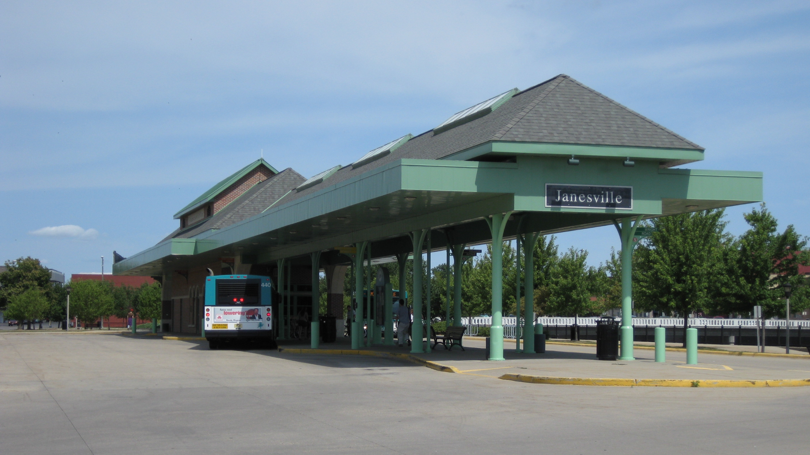 Janesville bus transfer station in August 2009